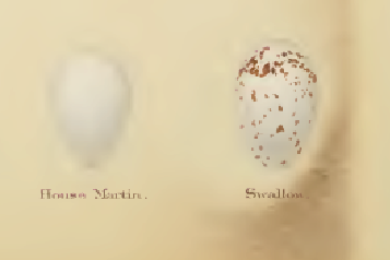 eggs of Delichon urbica and Hirundo rustica